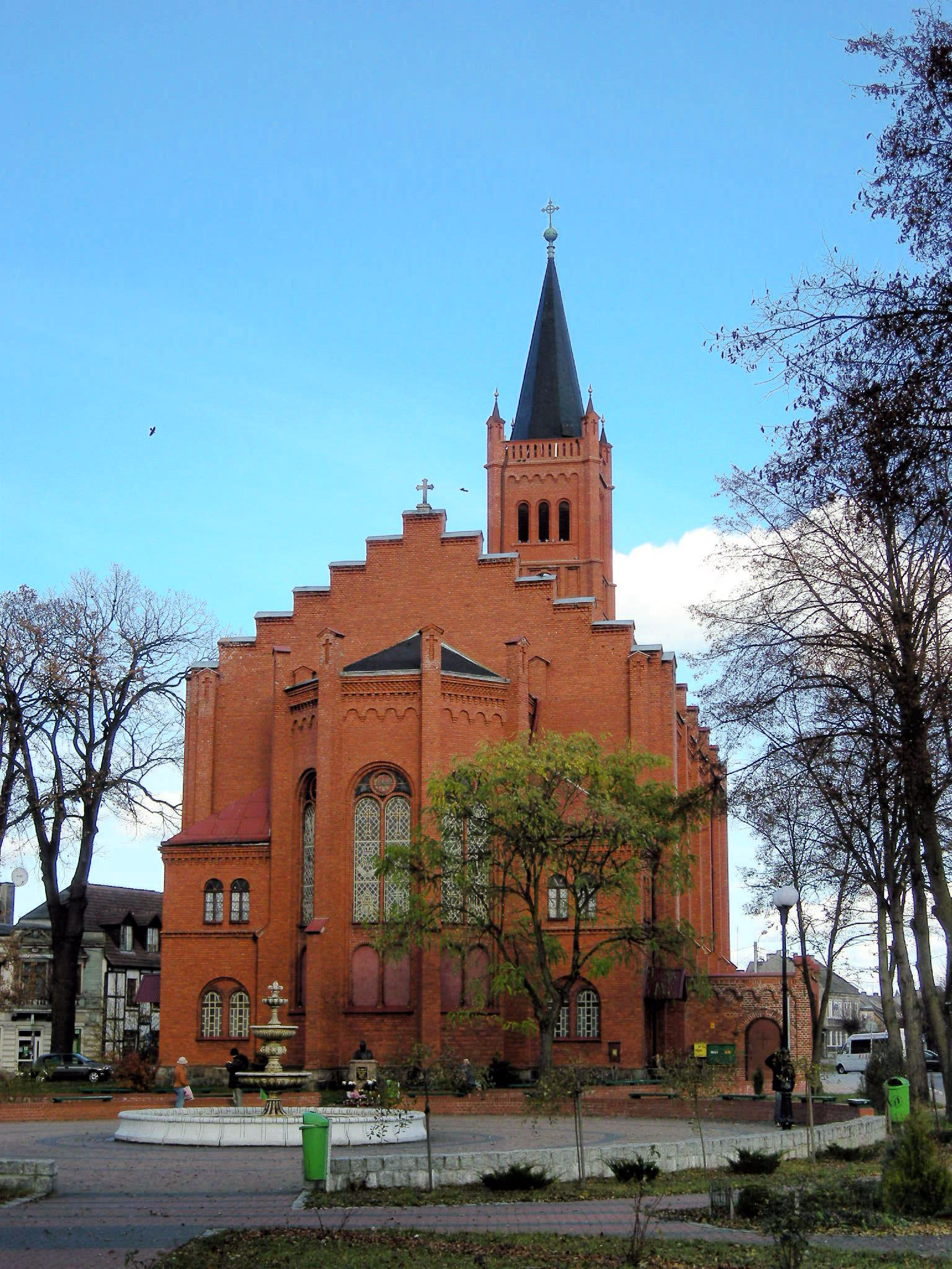 The church in Jastrowie, Poland.